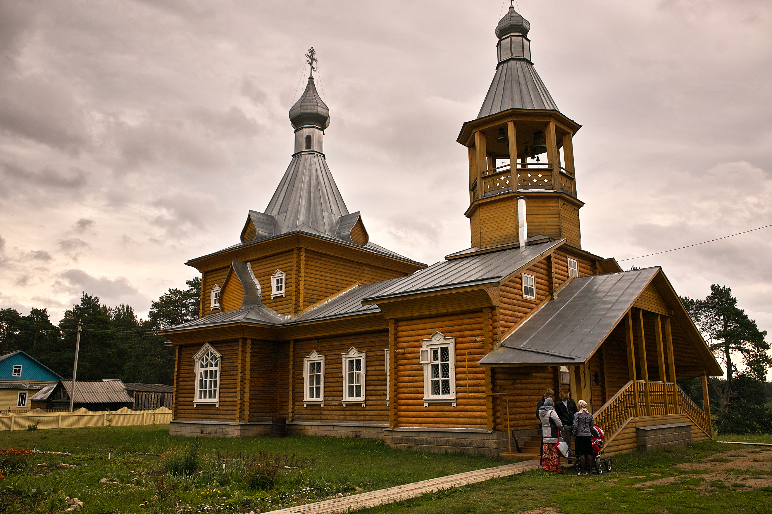 The church of Tarnogskij gorodok, Vologda oblast, Russia